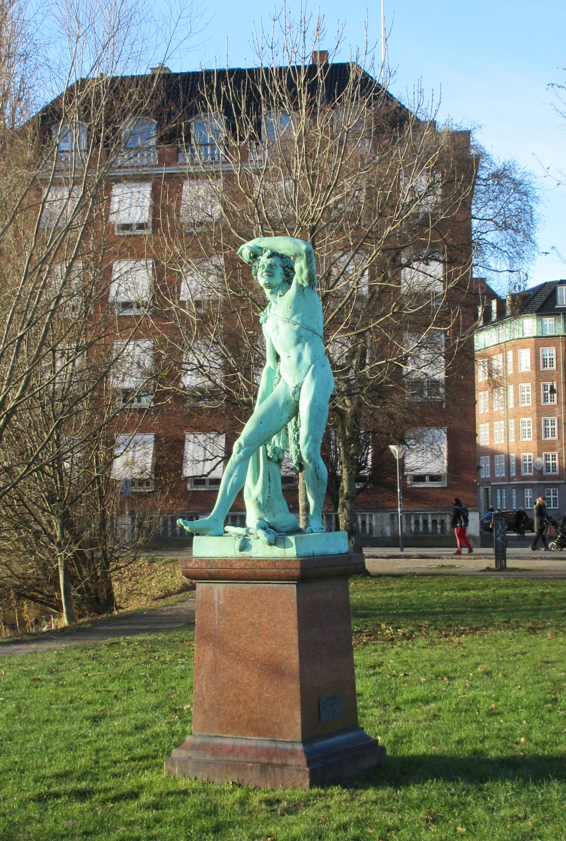 The statue A Drunken Fain by Andreas Kolberg at Gyldenløvesgade in Copenhagen, Denmark